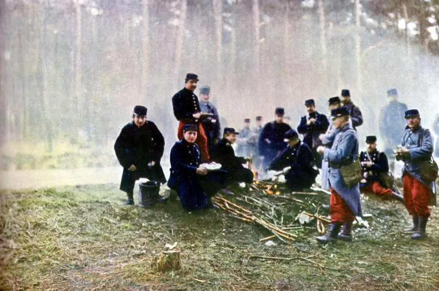 French soldiers are resting in the forest during the Battle of Marne